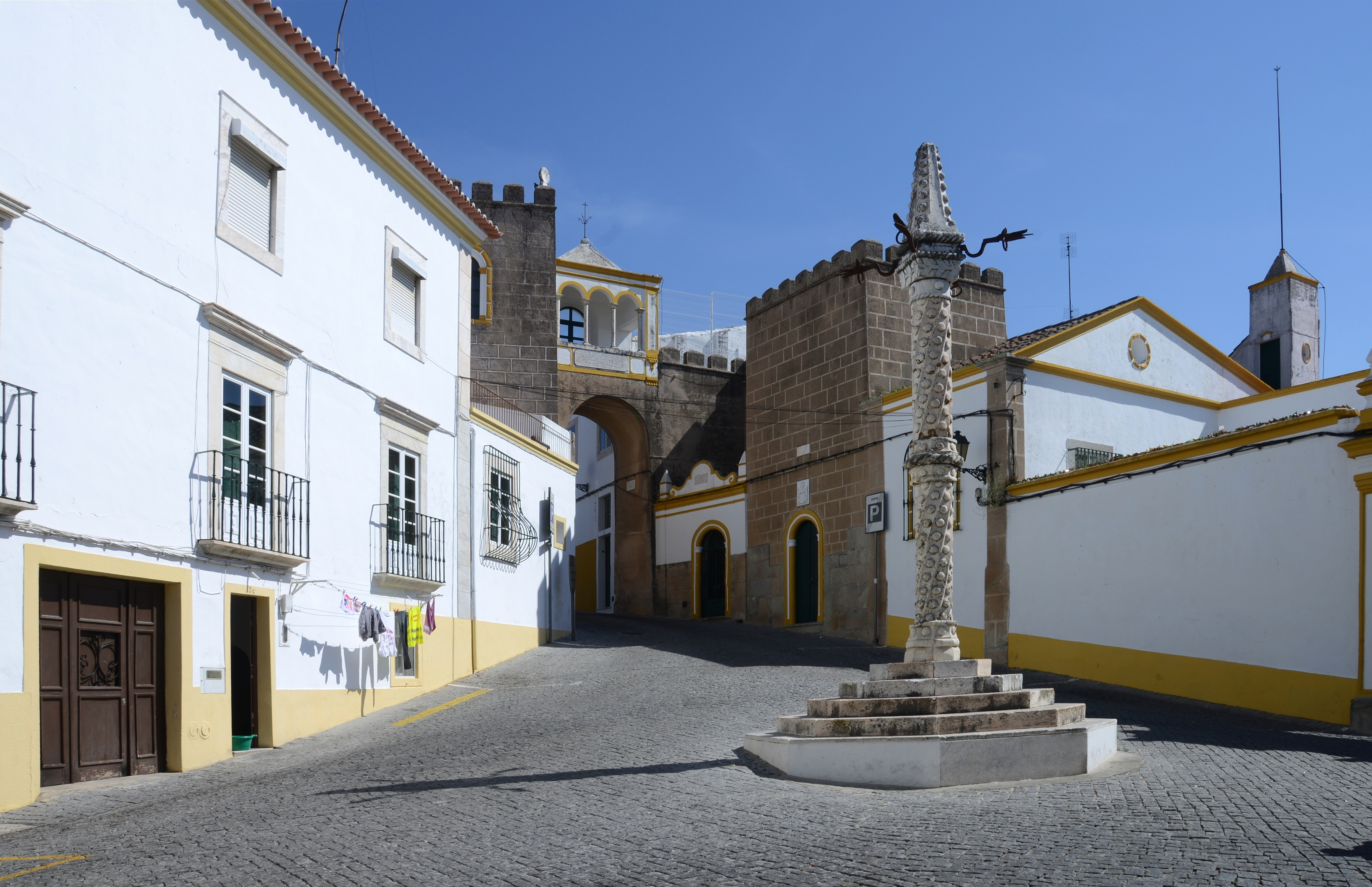 View of Elvas with a pillory, Portugal